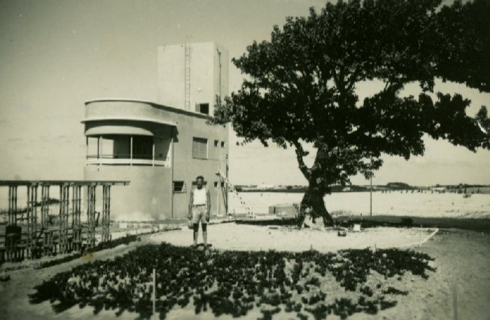 Hosmasa Holon 1937 on the right a Sycamore tree still standing today. location: 53rd David Elazar st. Holon